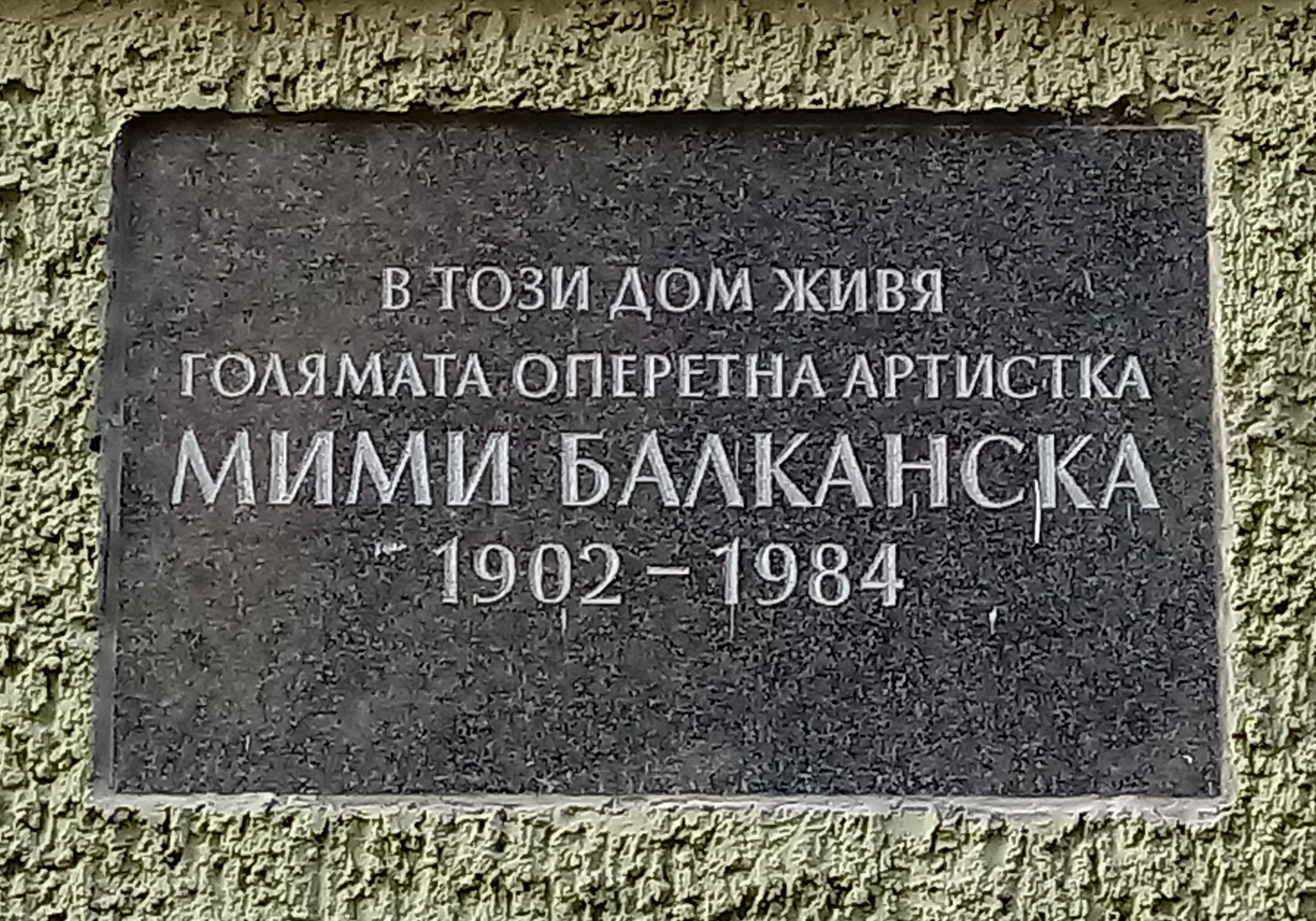 Mimi Balkanska memorial plaque, 1A "11 August" Str., Sofia